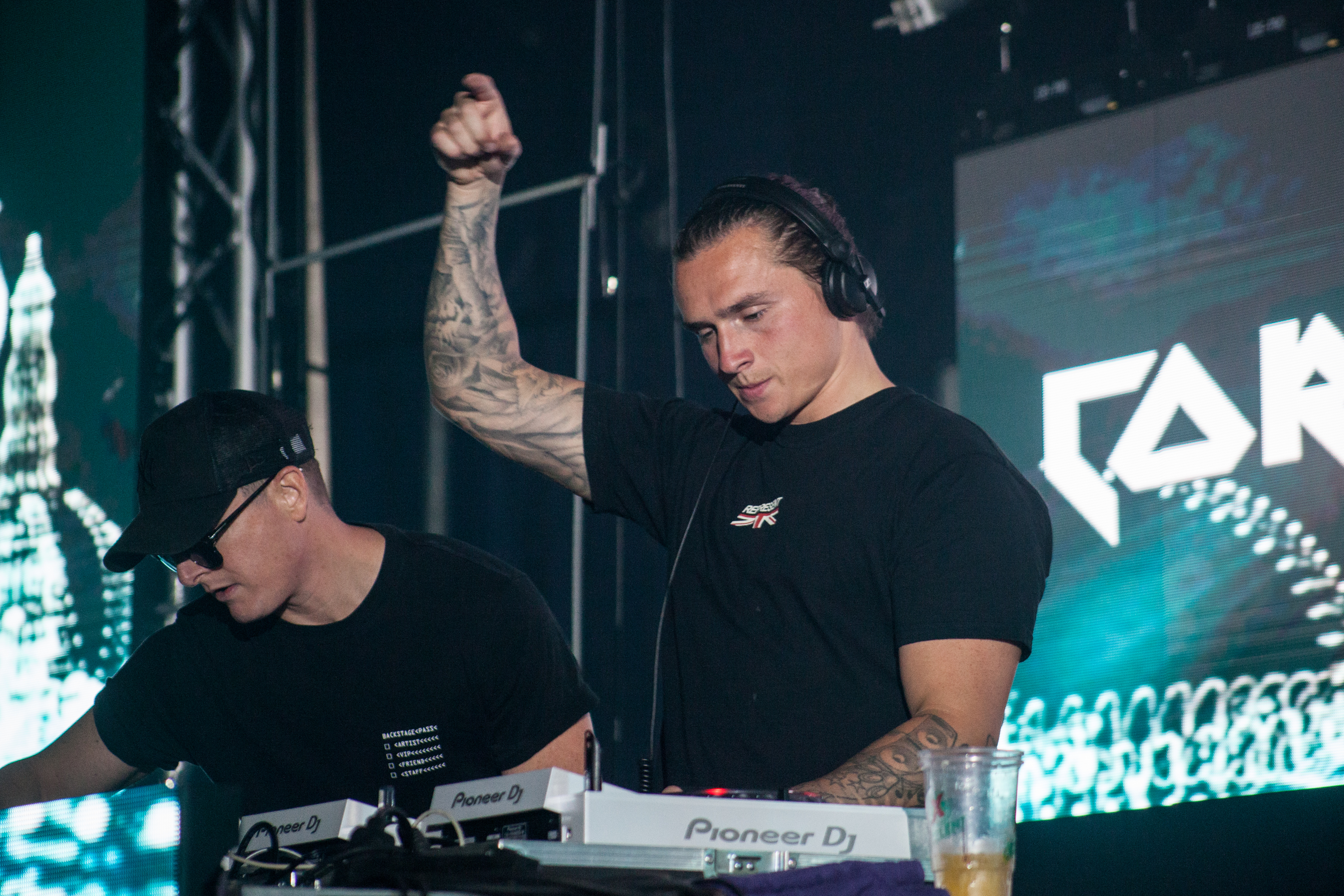 Corey James, English disc jockey, producer and remixer performing at Beats for Love (electronic music festival in Ostrava) on 4 July 2019